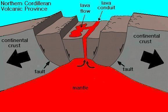 Image of the Northern Cordilleran Volcanic Province rift in northern British Columbia, Canada.